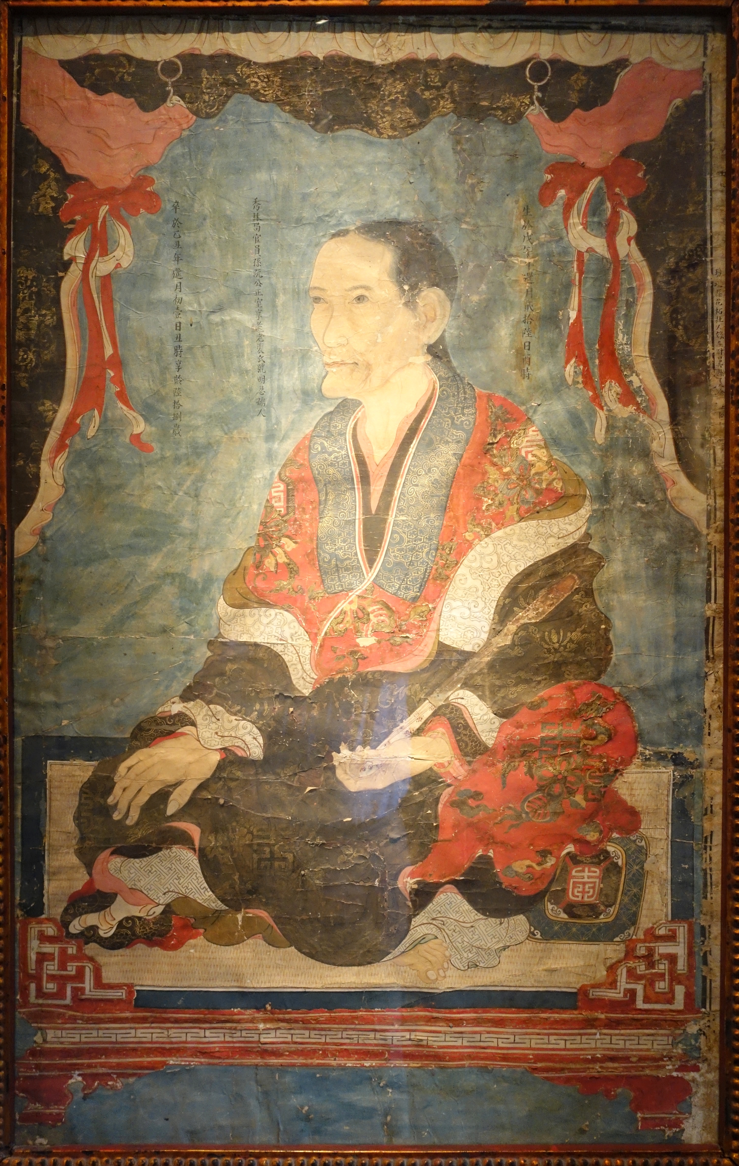 Exhibit in the Vietnam National Museum of Fine Arts - Hanoi, Vietnam. This artwork is old enough so that it is in the public domain.